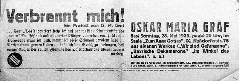 Poster for a lecture by Oskar Maria Graf in connection with his protest Verbrennt mich! (Burn me!) against the Nazi book burnings on 28 May 1933 in Vienna.